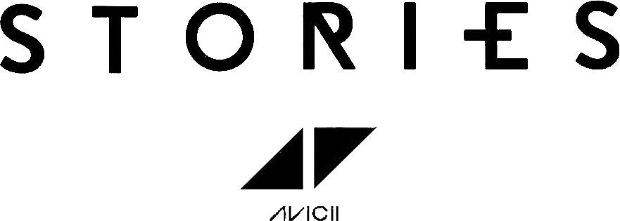 Logo of Avicii-album Stories